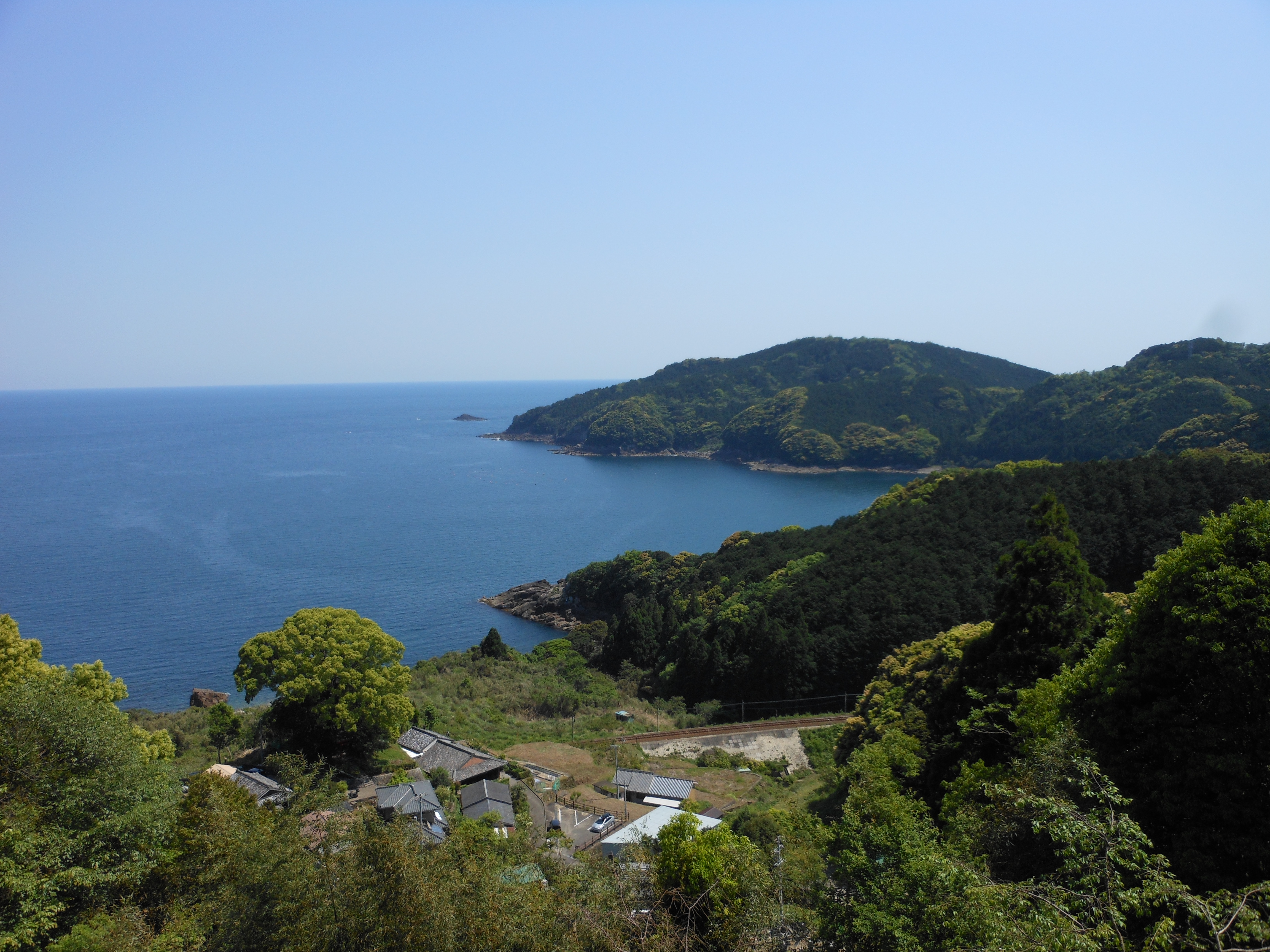 This is a landscape of Hadasu-cho, Kumano city, Mie prefecture, Japan.